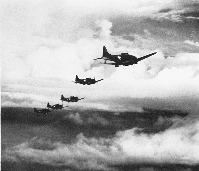 U.S. Navy or Marine Corps Douglas SBD Dauntless dive bombers from Allied Air Solomons (AirSols, also known as "Cactus Air Force") head out on a bombing mission in the Solomon Islands in early 1943.